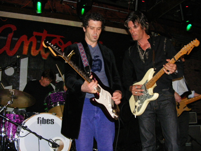 ARC Angels peforming at Antone's in Austin, Texas during South by Southwest (2009). Chris Layton, Doyle Bramhall II and Charlie Sexton (L - R). Photo by Ron Baker.